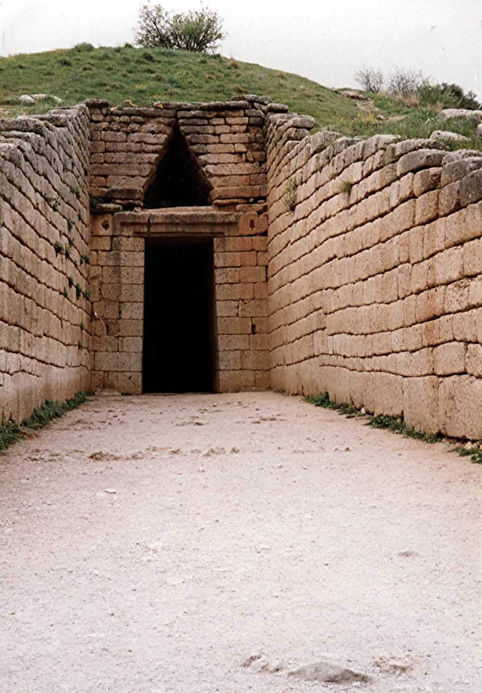 Corbelled arch, Entrance to the Treasury of Atreus, Mykene, Greece.